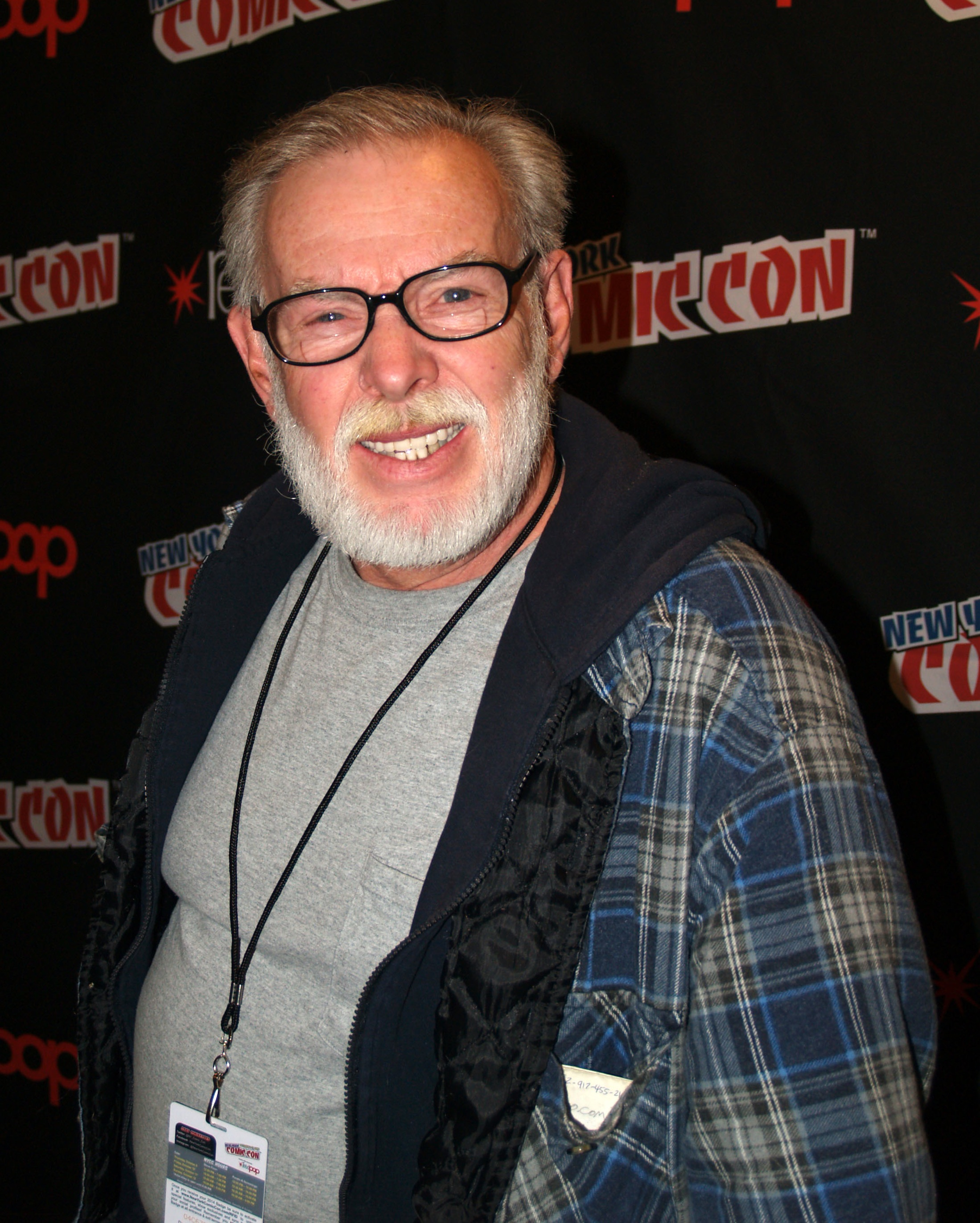 Cartoonist Jay Lynch at a discussion panel on Harvey Kurtzman's Jungle Book on Saturday, October 11, 2014 at the Jacob K. Javits Convention Center in Manhattan, Day 3 of the 2014 New York Comic Con. This photo was created by Luigi Novi. It is not in the public domain, and use of this file outside of the licensing terms is a copyright violation.